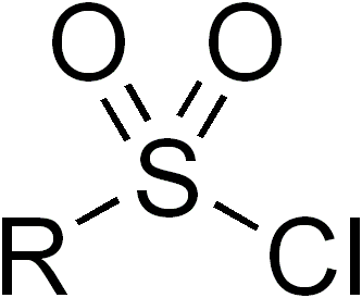 general chemical structure of a sulfonyl chloride (sulfonic acid chloride, sulphonyl chloride, sulphonic acid chloride)